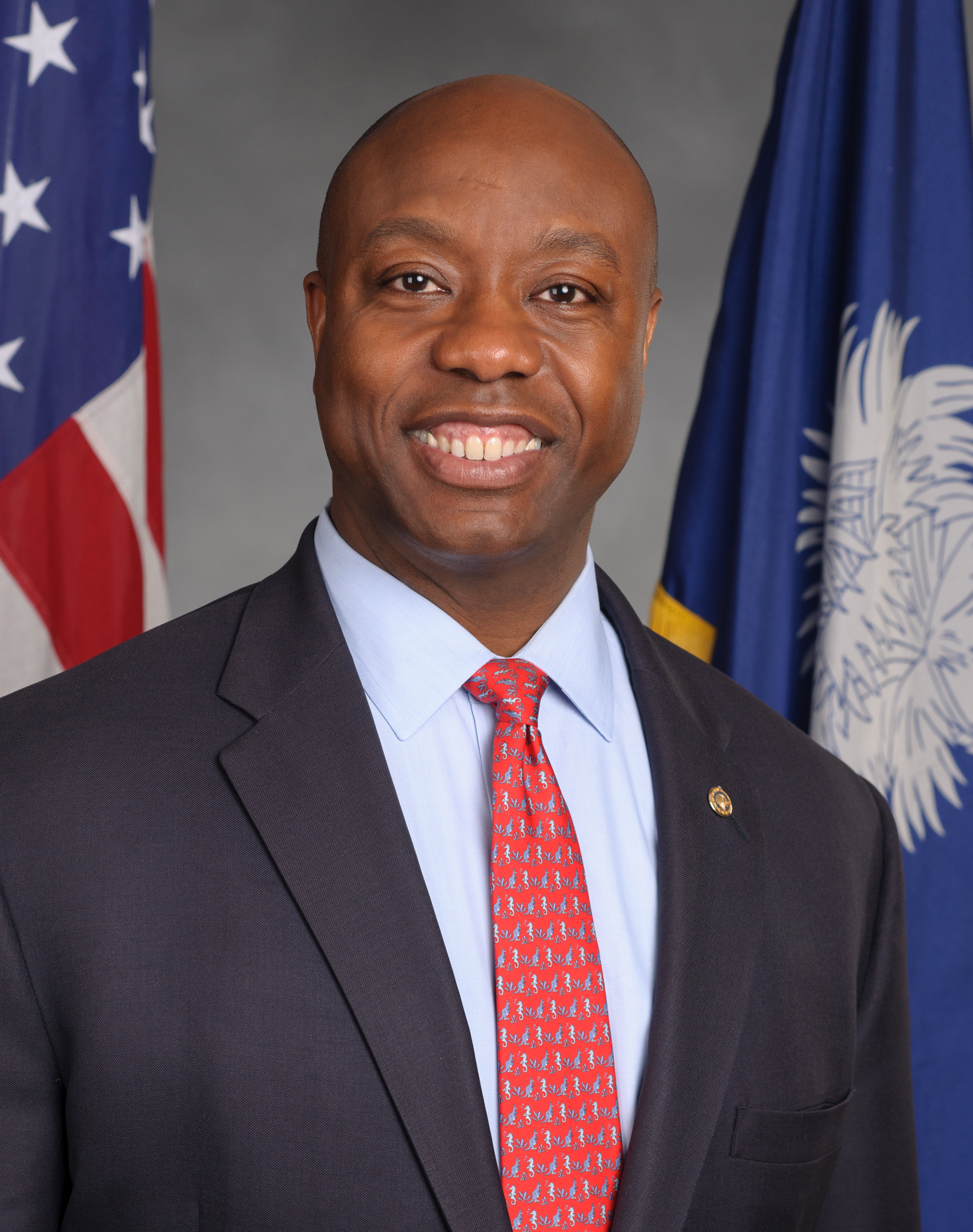 Official portrait of U.S. Senator Tim Scott (R-SC).